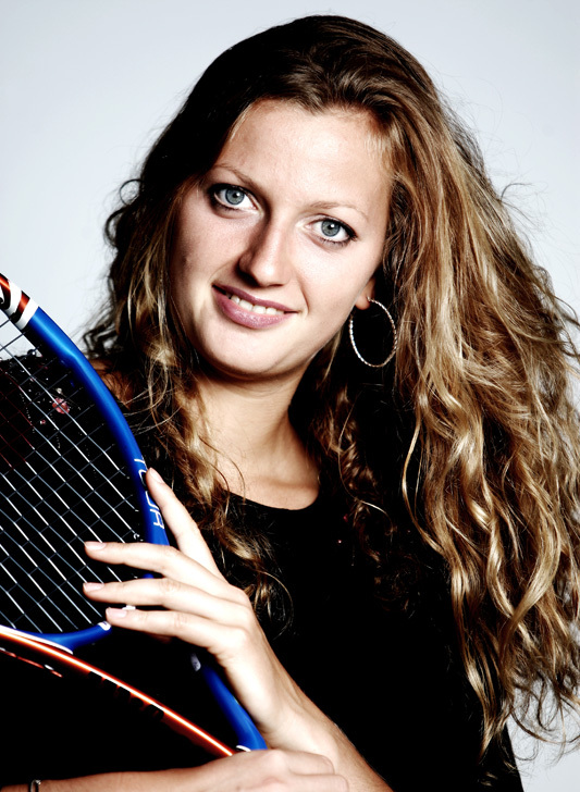 Czech tennis player Petra Kvitova, 2011